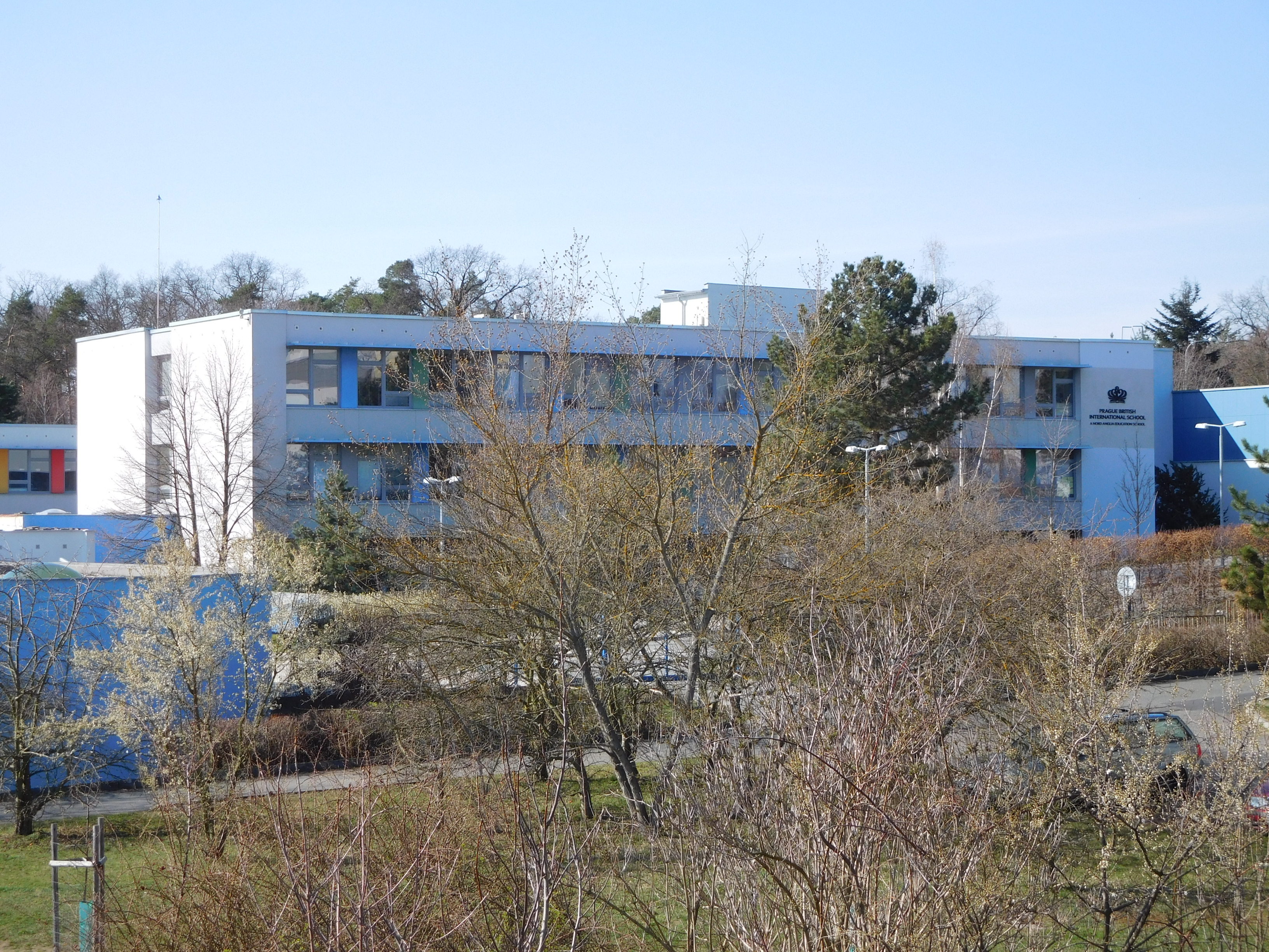 Praha - Kamýk, K lesu 2, Prague British International School